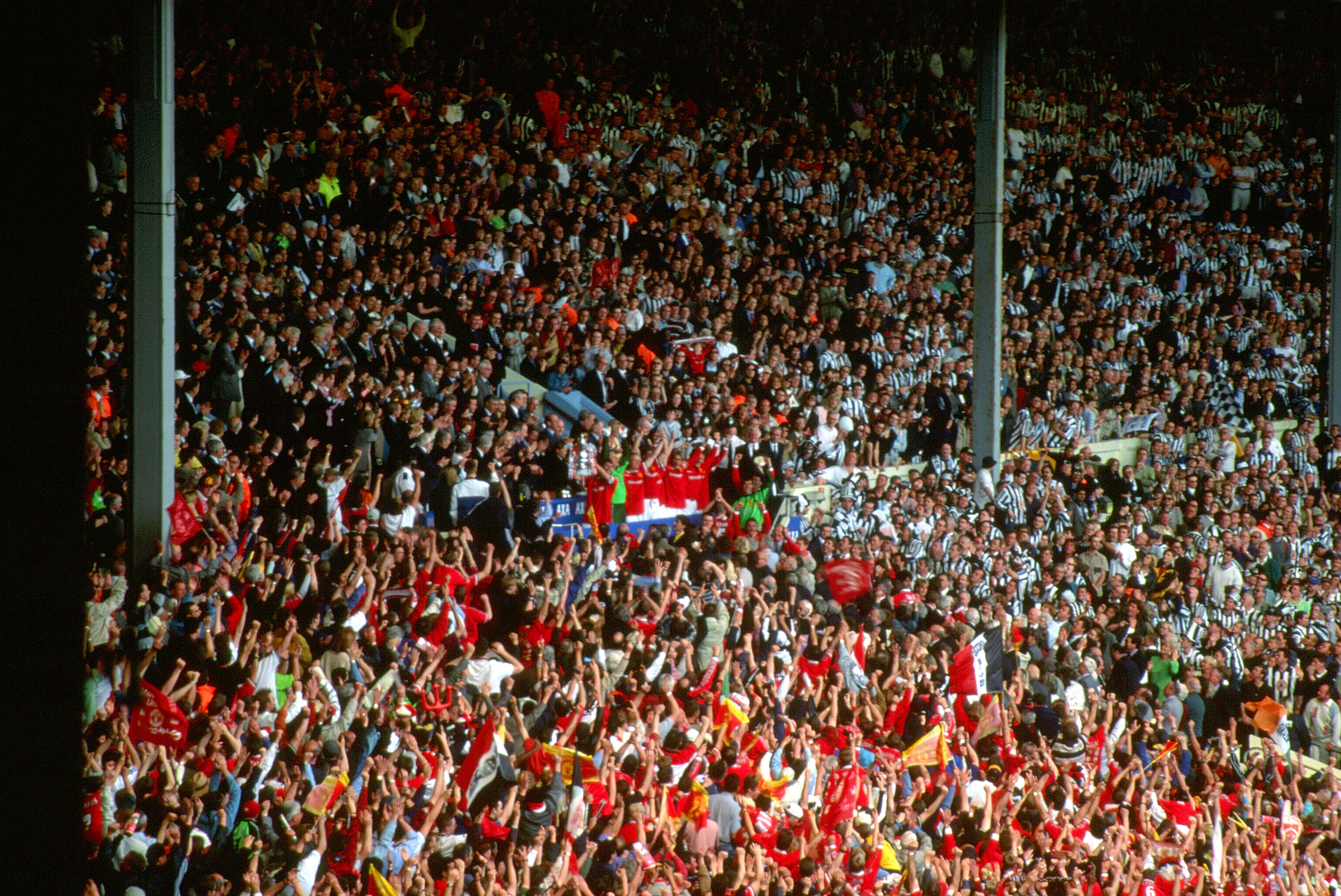 Manchester United captain Roy Keane lifts the FA Cup, presented to him by Charles, Prince of Wales, after his side beat Newcastle United 2–0 in the 1999 FA Cup Final at Wembley Stadium on 22 May 1999